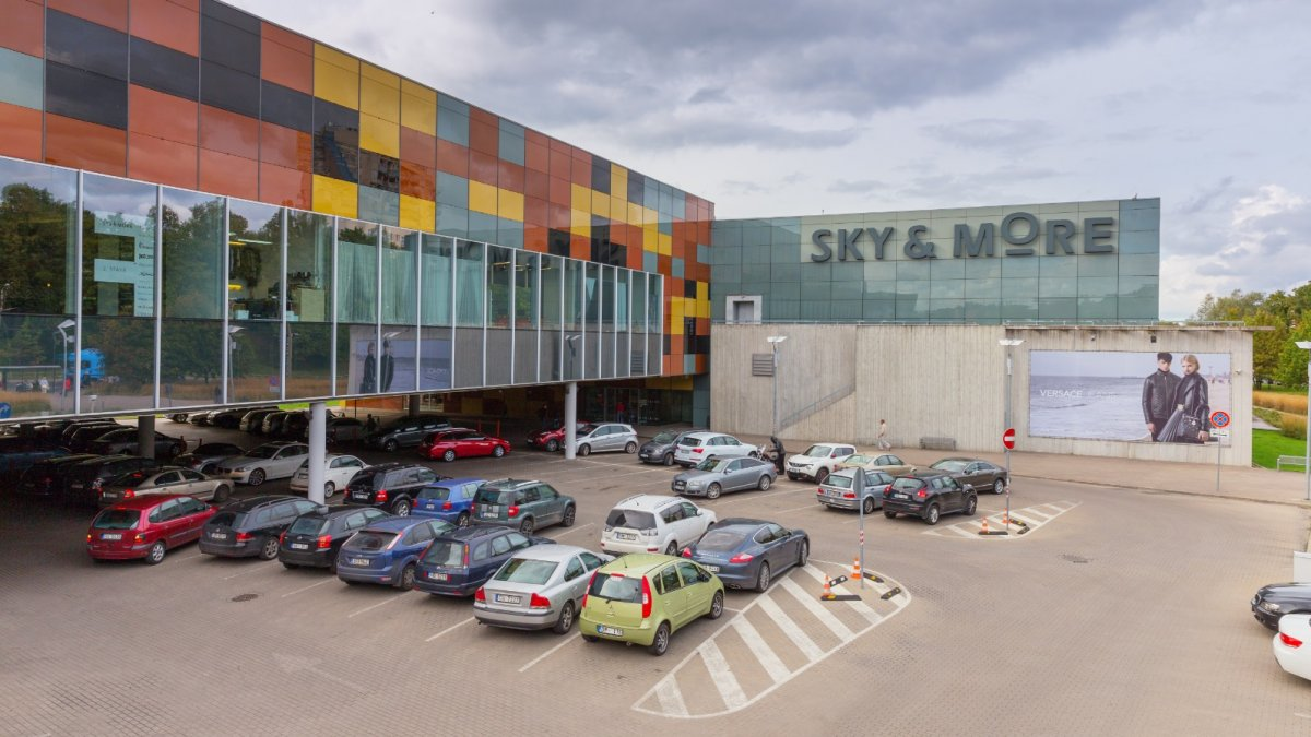 Sky and more